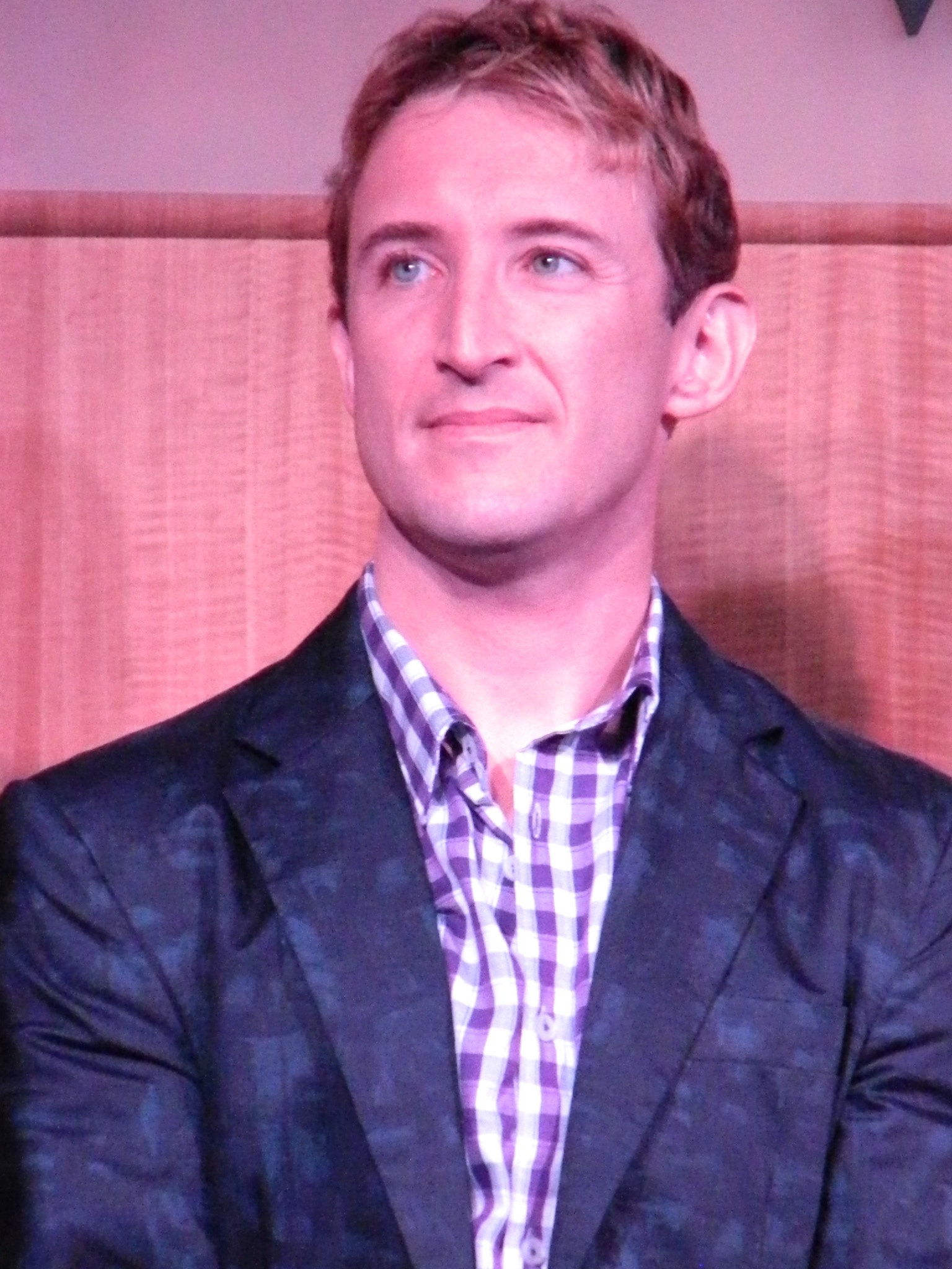 Andrew Gerle onstage with composer David Shire & Christiana Noll.